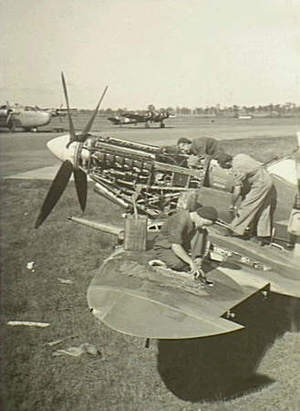 Amberley, Qld. At No. 3 Aircraft Depot RAAF removing camouflage paint from Spitfire Mk VIII aircraft. Nearest camera, 170172 Leading Aircraftman (LAC) E. A. C. Richardson, flight rigger, of Kedron, Qld; centre, 426145 LAC N. G. Neilson, fitter IIA, of Bundaberg, Qld; 65677 LAC K. J. Sharp, fitter IIA, of Canowindra, NSW. The men are using paint remover and spatulas. The Spitfire's cowlings are off, revealing the Merlin engine in detail. In the background are a Consolidated Liberator C-87 transport of the RAF, DAP Beaufighter A8-129 (?) of No. 93 Squadron RAAF, and two other Liberator aircraft.